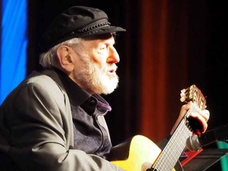 Theodore Bikel performing at the St. Louis Jewish Books Festival, November 2, 2014.